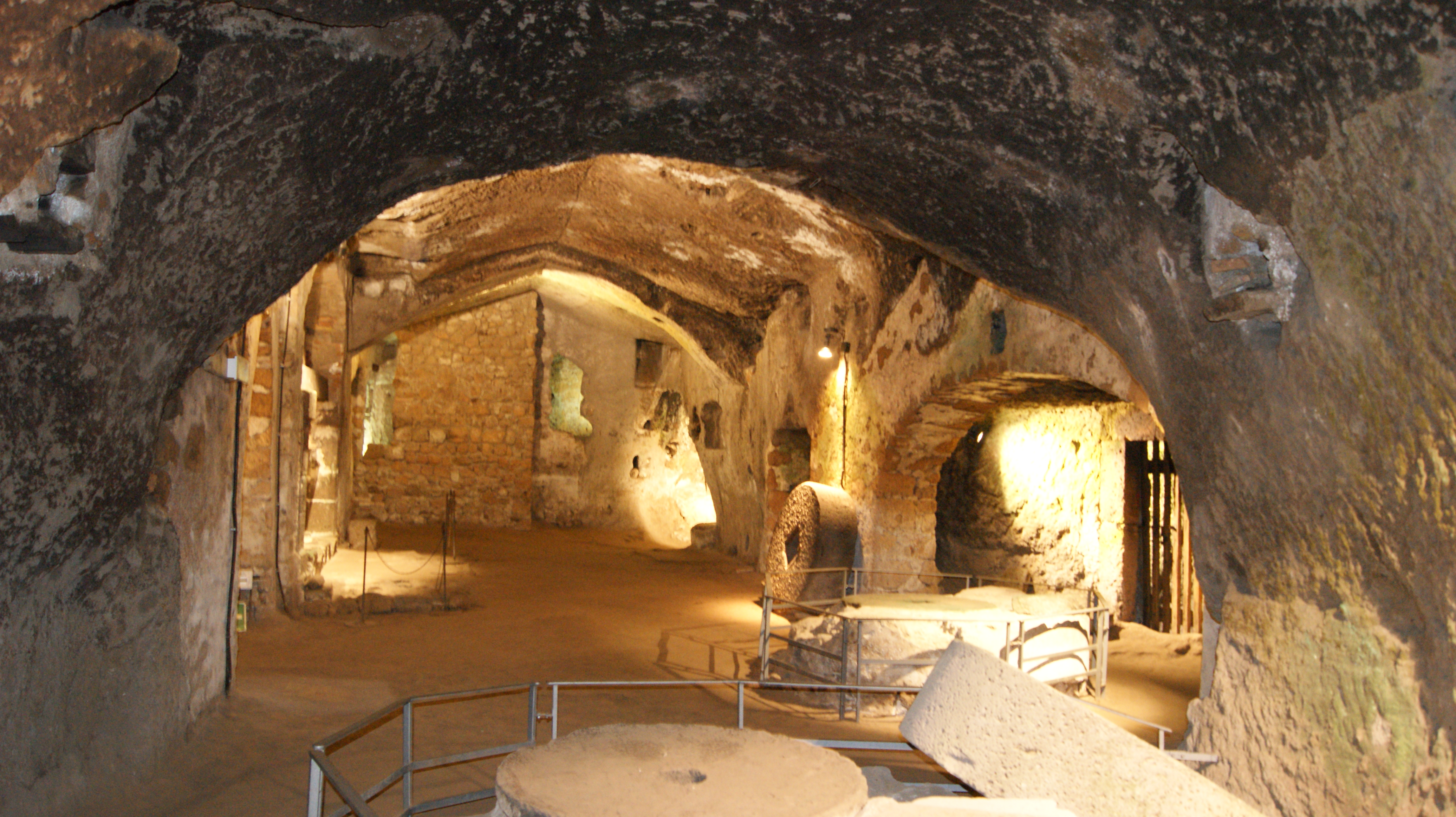 "Underground City" in Orvieto, Italy.